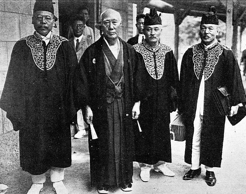 Katsundo Minoura and lawyers